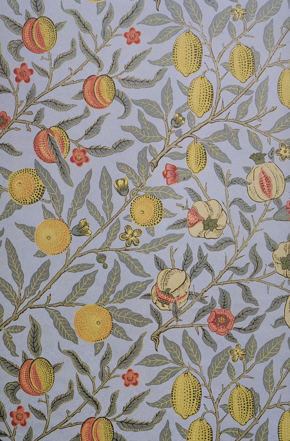 Fruit (or Pomegranate) wallpaper designed by William Morris. (Identification from Linda Parry, ed.: William Morris, Abrams, 1996, ISBN 0-8109-4282-8, p. 206-207)